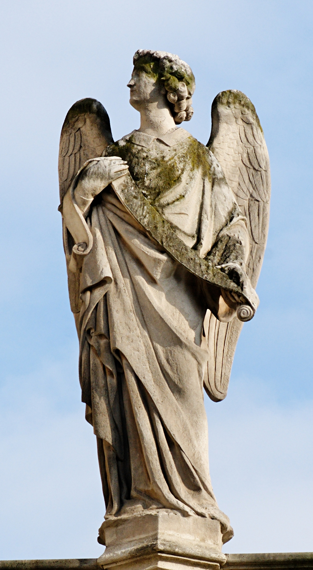 Angel by Jules Cavelier. Top of the right archway flanking the bell-tower, Saint-Germain l'Auxerrois, Paris.